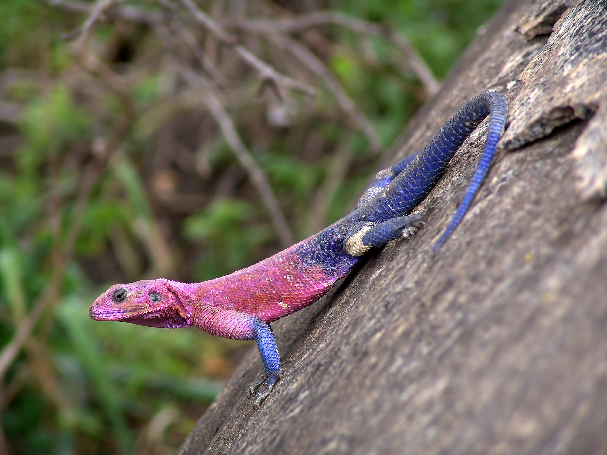 Flat-Headed Rock Agama (Agama mwanzae), picture taken in Serengeti national park / Tanzania